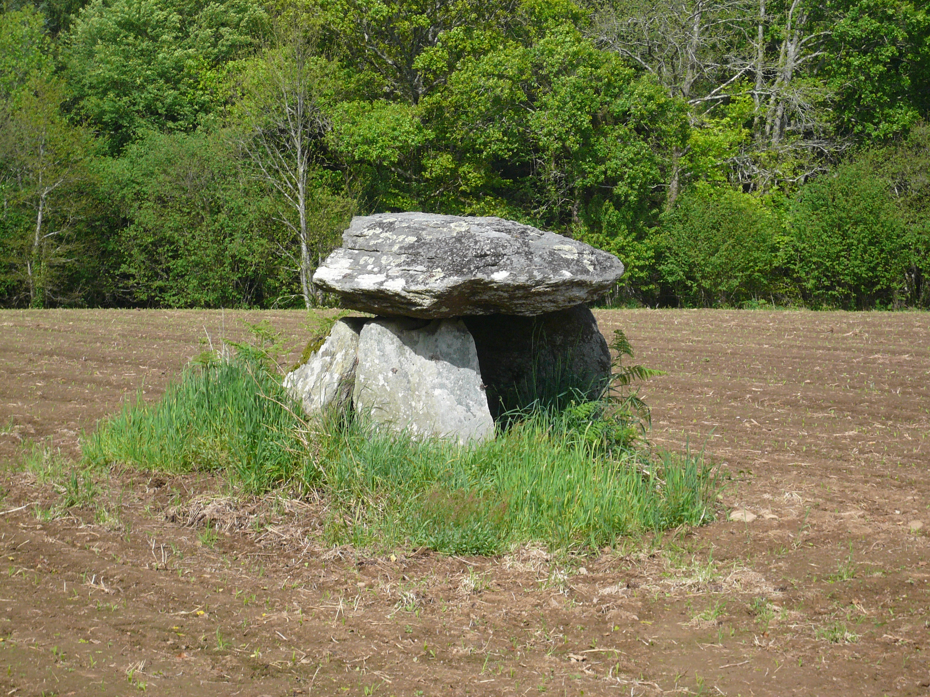 Dolmen near Kerscao in commune of Riec-sur-Bélon, Finistère, Brittany, France.